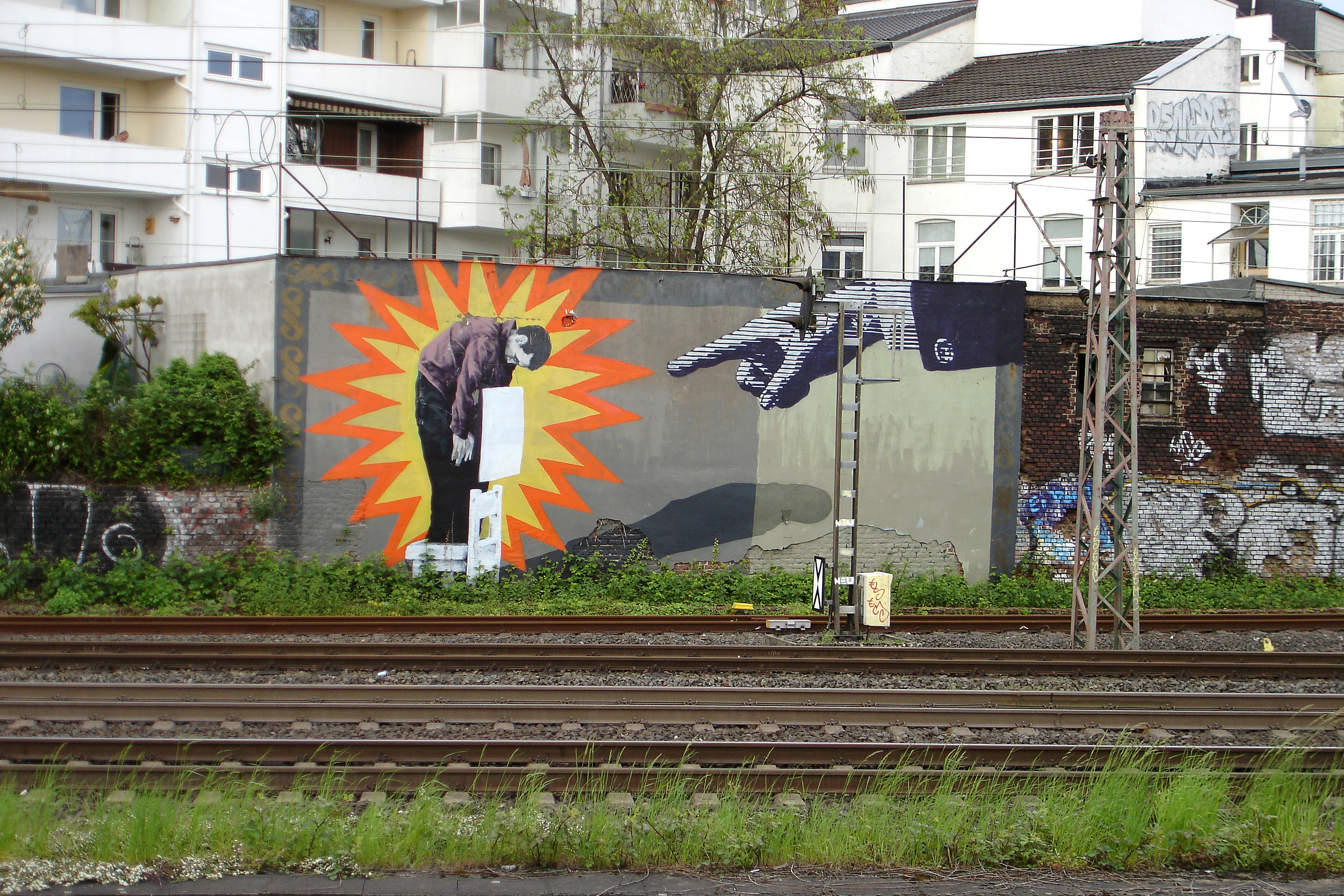 Street art mural from AGIT in Düsseldorf Germany.